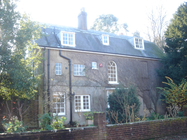 The Vicarage, The Street, Ifield, Borough of Crawley, West Sussex, England: an 18th-century stuccoed brick building with a slate roof and sash windows. Listed at Grade II by English Heritage (IoE code 363401)